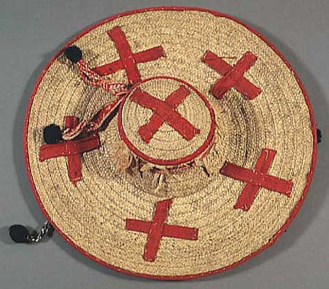 Hat from Mexico, collected 1935-1936 by Helga Larsen and Bodil Christensen.